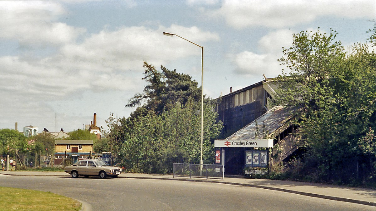 Entrance to Croxley Green station, 1984. View eastward, towards Watford Junction: terminus of the ex-London & North Western electrified branch from Watford Junction/Bushey & Oxhey to Rickmansworth (Church St.), already closed since 2/1/67 (passengers 3/3/52), the service to Croxley Green was reduced on 17/5/93 to one train per day and completely from 27/3/96. A remarkably protracted end (!)